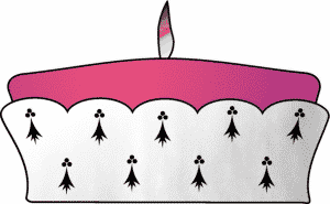 Kurfuerstenhut, the coronet or cap of an Elector of the Holy Roman Empire